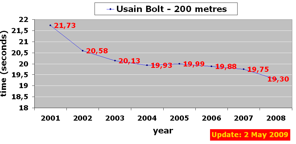 The performance curve Usain Bolt ran the 200 meters. Update: 2 May 2009